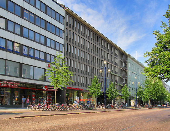 Lahti Aleksanterinkatu